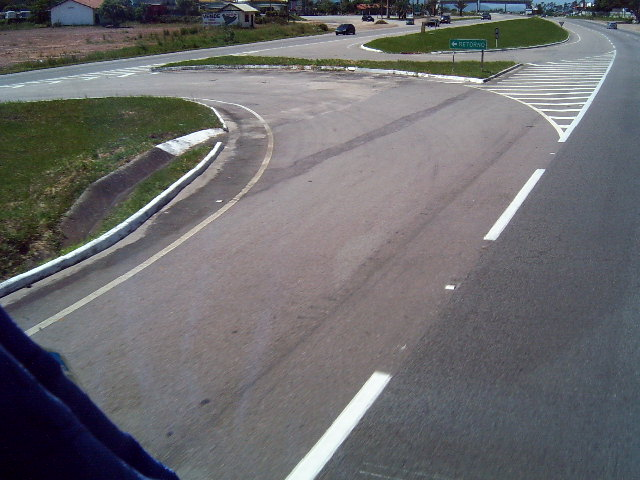 Rodovia BR-101 in Santa Catarina - highway in Brasil with turning lane